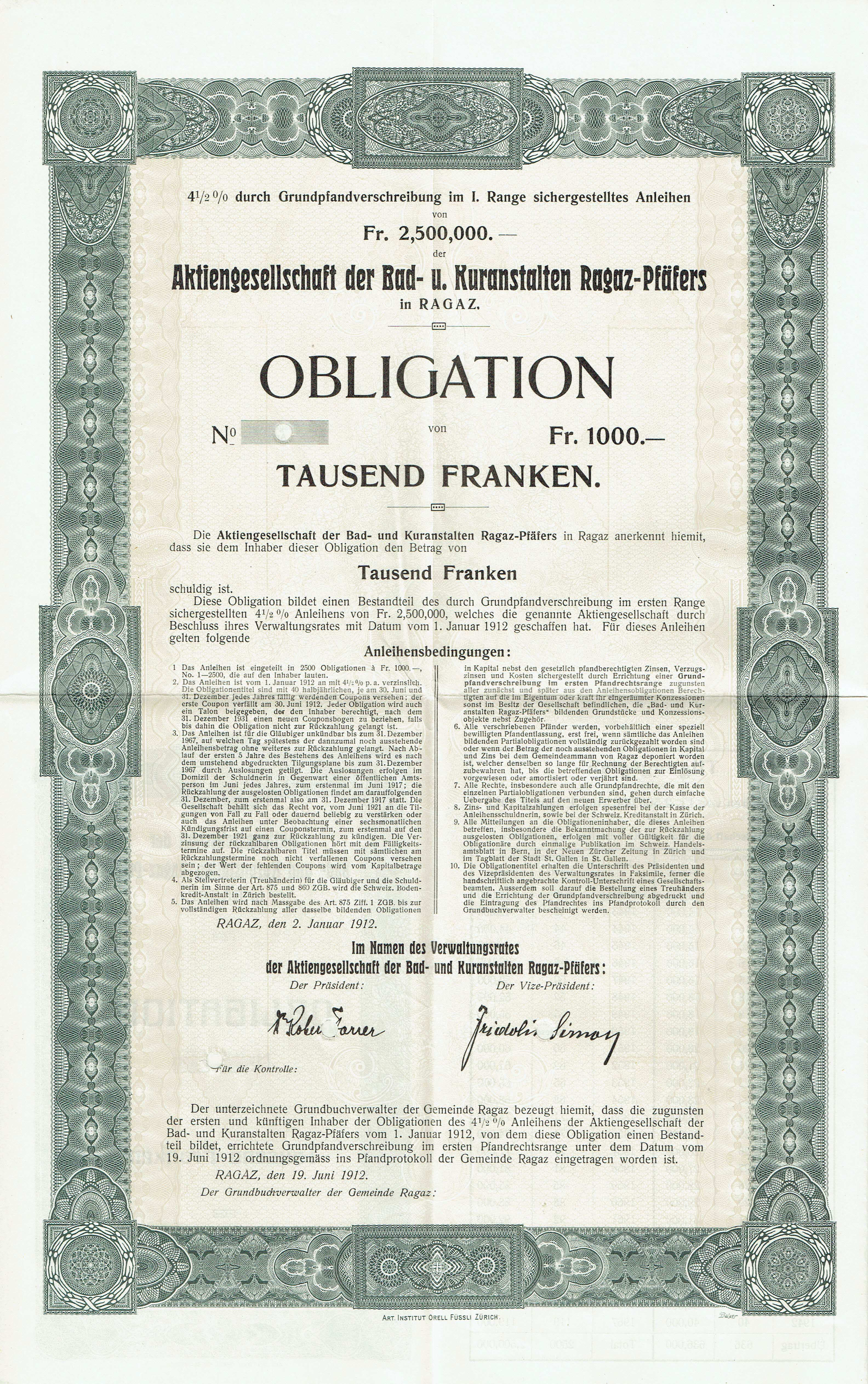 Bond of the AG der Bad- und Kuranstalten Ragaz-Pfäfers, issued 19. June 1912